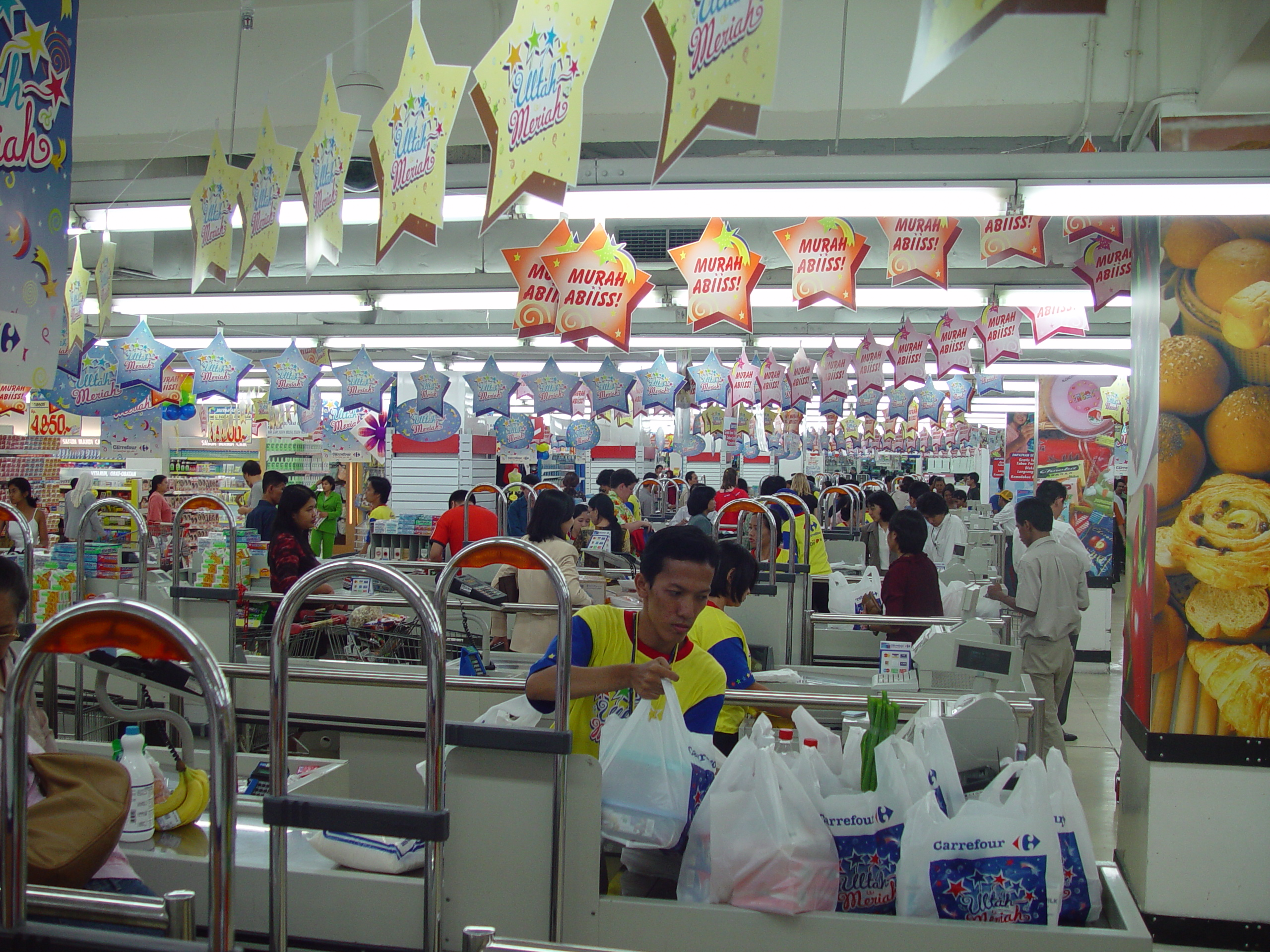 Corporate globalization and mall cultural in Jakarta, Indonesia.